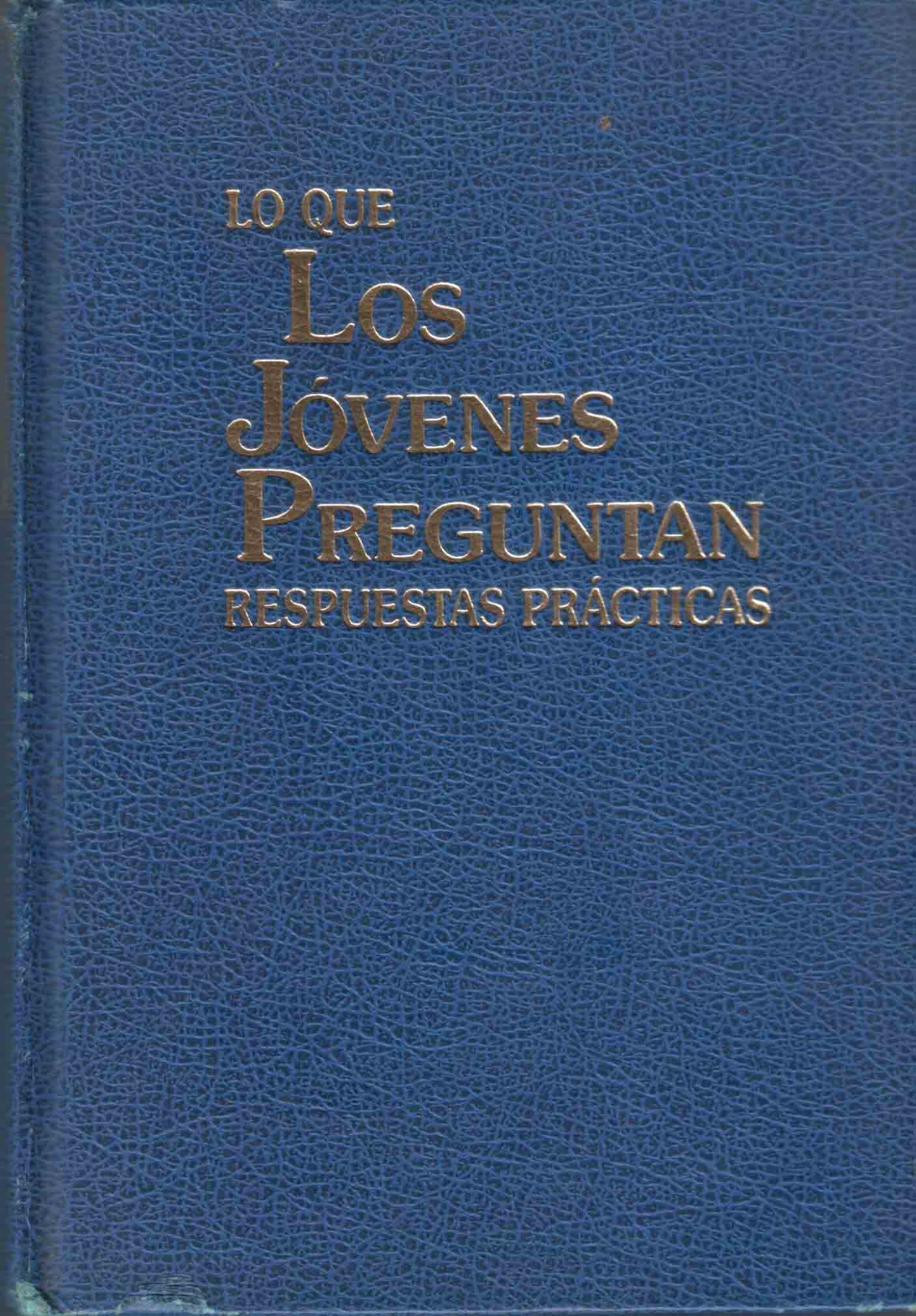 Lo que los jóvenes preguntan de los Testigos de Jehová